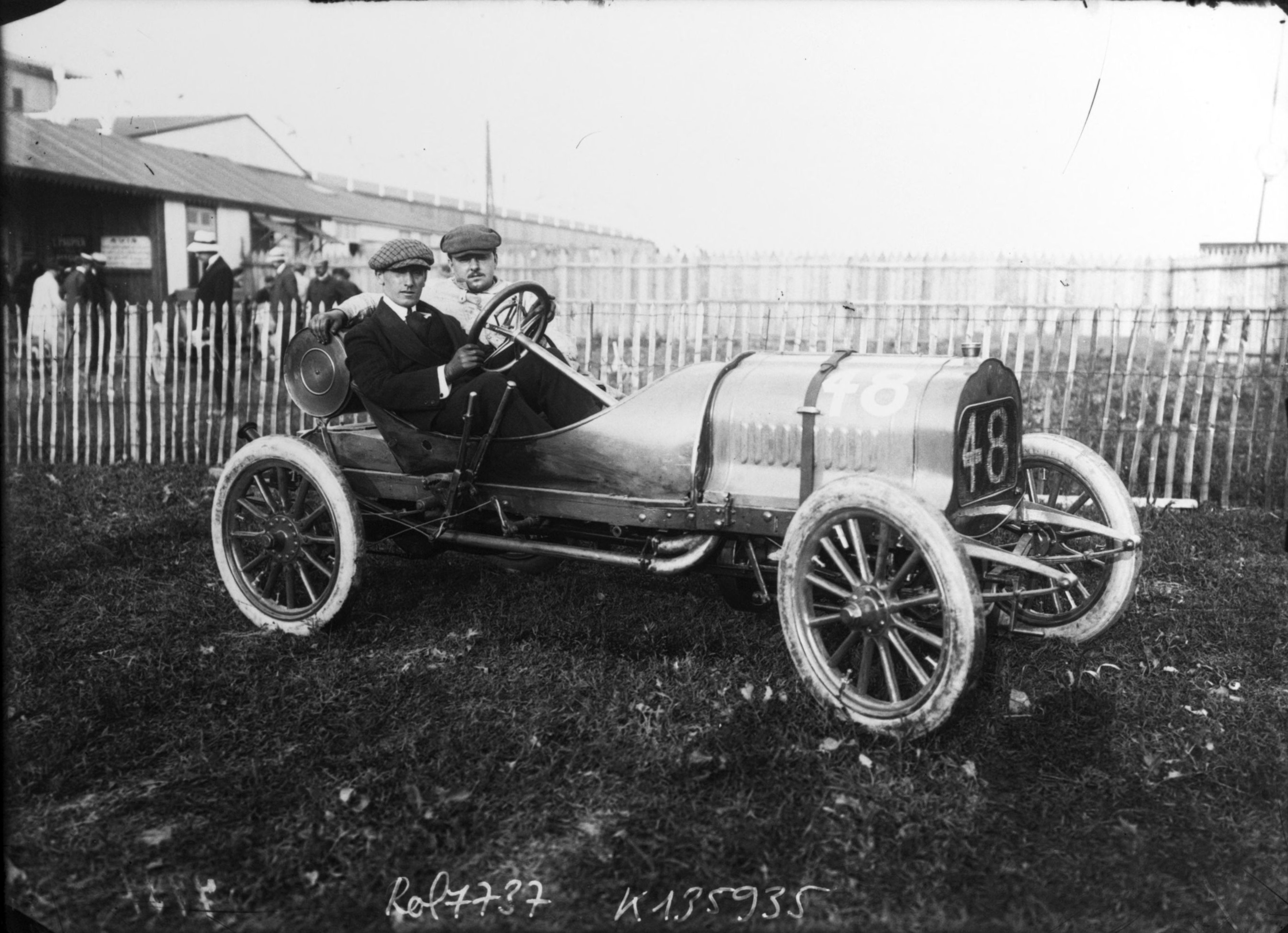 Carlo Pizzagalli in his Monnier at the 1908 Grand Prix des Voiturettes at Dieppe.